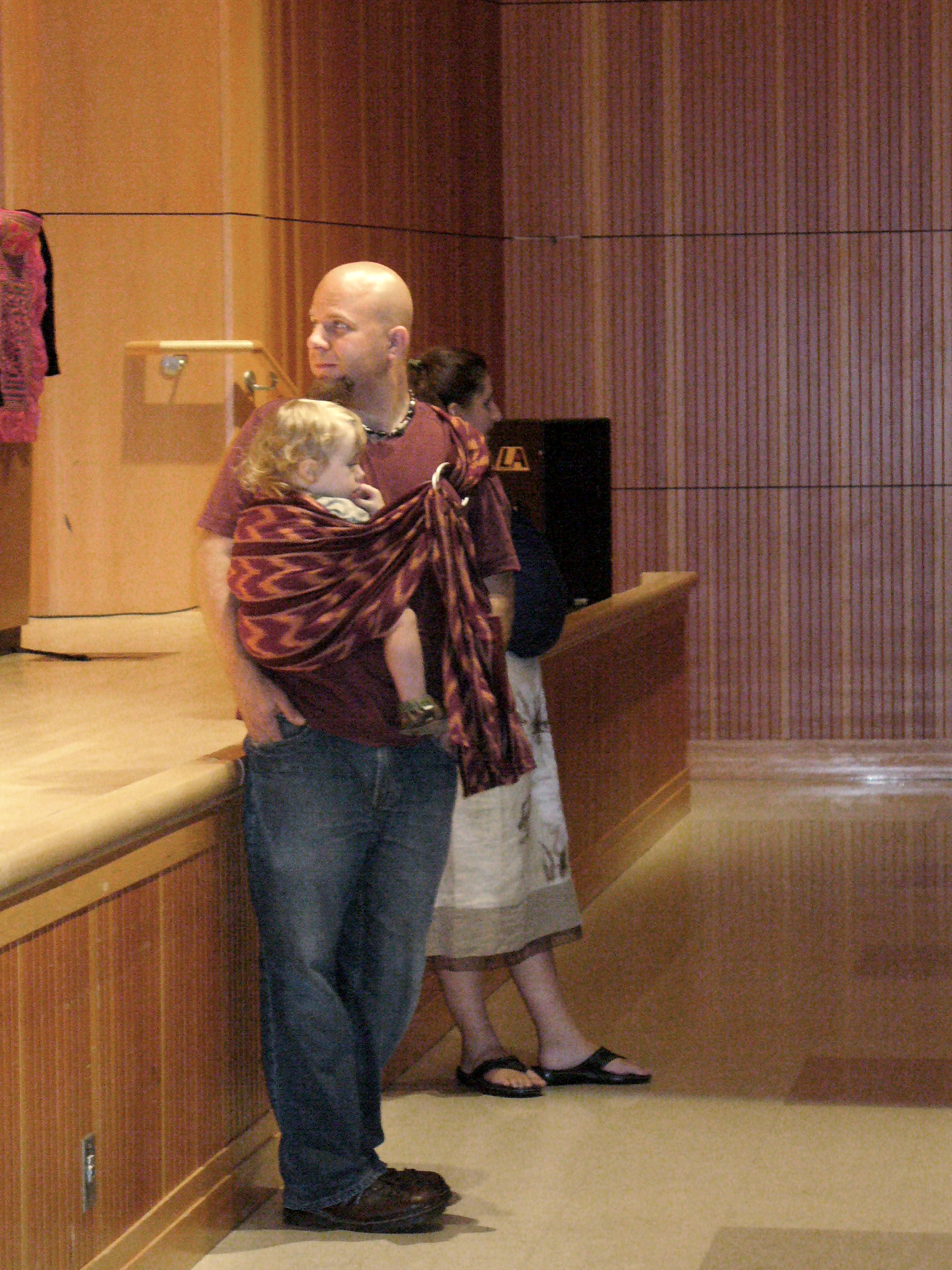 A dad wears his son in a ring sling at the 2006 International Babywearing Conference fashion show. This is at Reed College, in front of the stage.